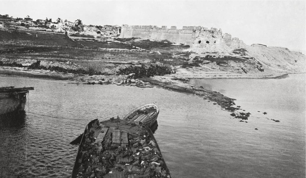 Sedd-el-Bahr fort and village seen from the SS River Clyde, 25 April 1915, during the landing at Cape Helles, Battle of Gallipoli. The lighter in the foreground contains dead from the Royal Munster Fusiliers and The Hampshire Regiment who were killed while attempting to get ashore.